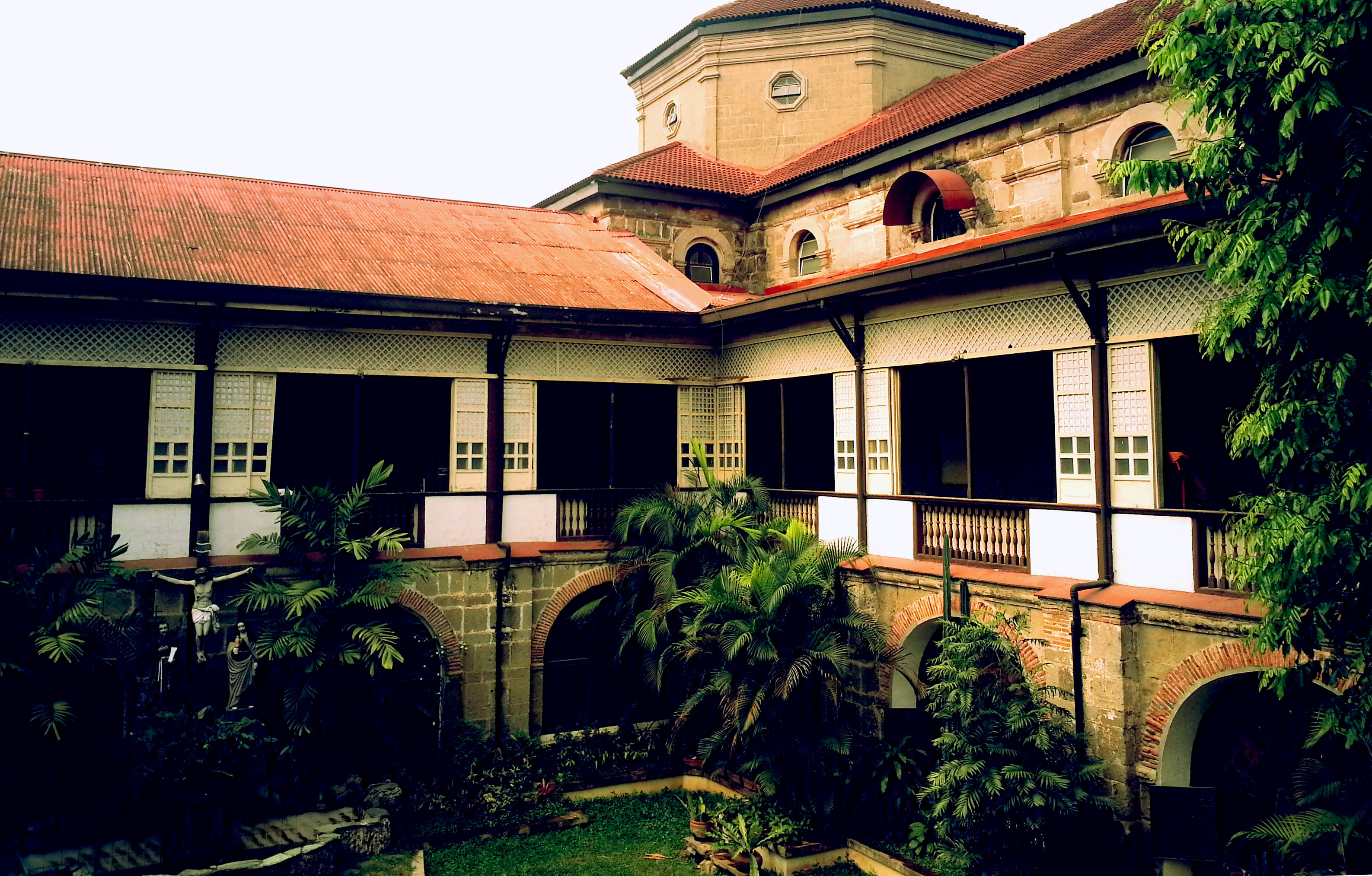 The convent of Santa Ana Church, Manila facing southwest